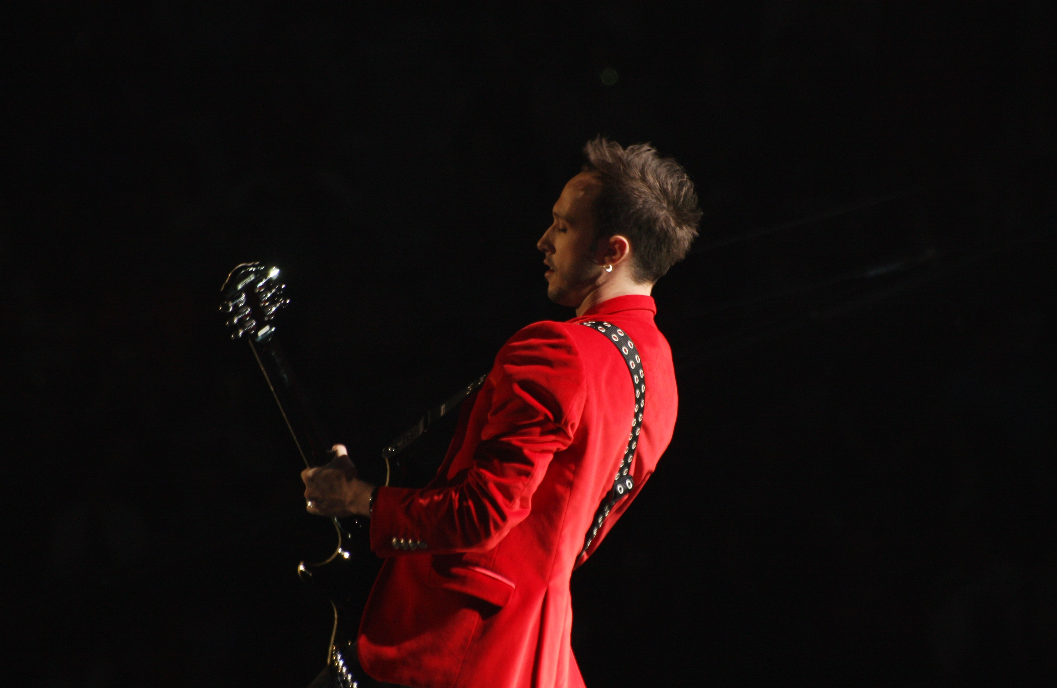 Vukasin Brajic, Bosnia's contestor at ESC 2010, Telenor Arena, Norway.